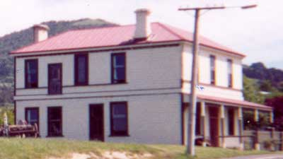 Coach and Horses Hotel (2001), Author AJ